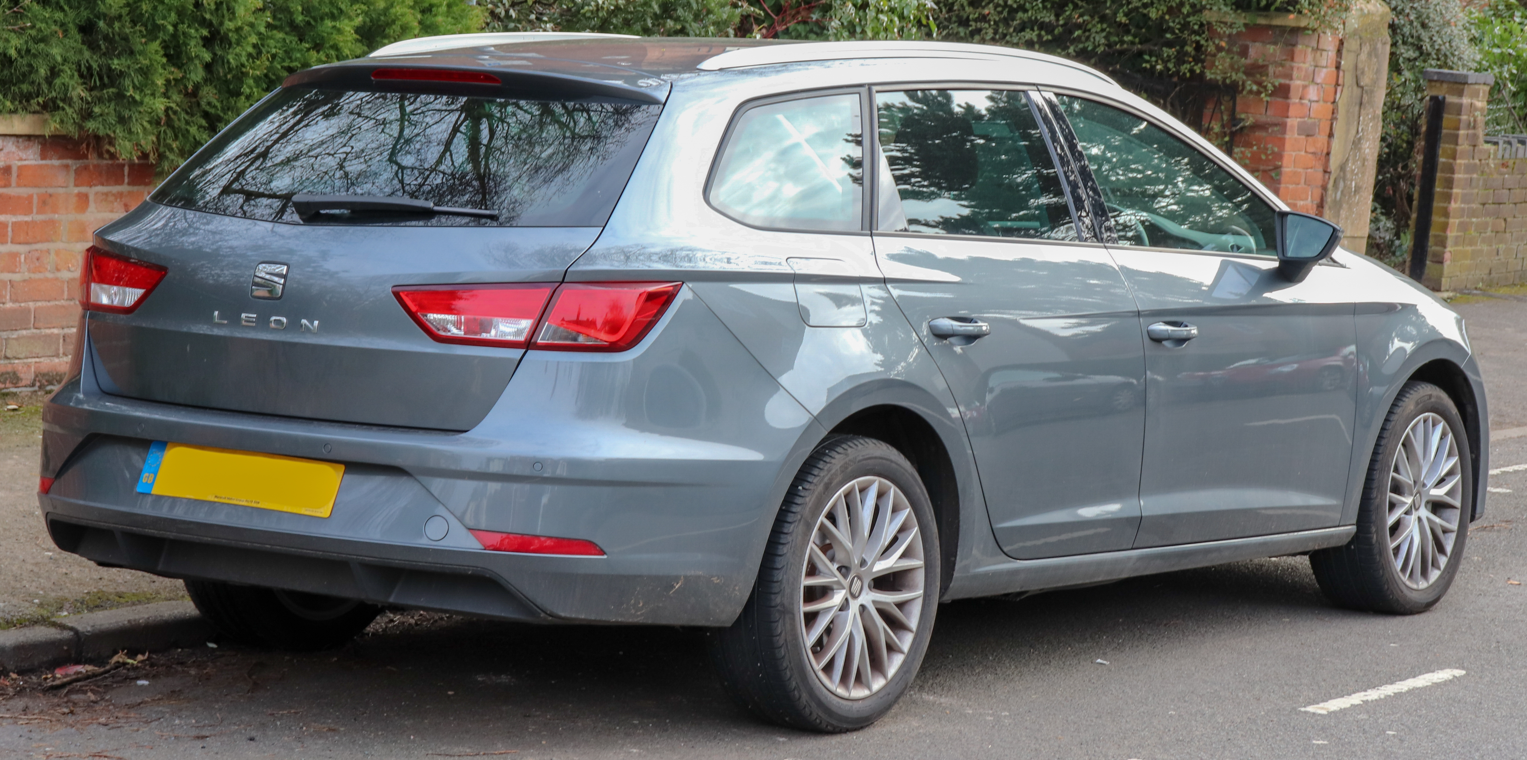 2017 SEAT Leon SE Dynamic Tech TDi Estate facelift 1.6 Taken in Leamington Spa